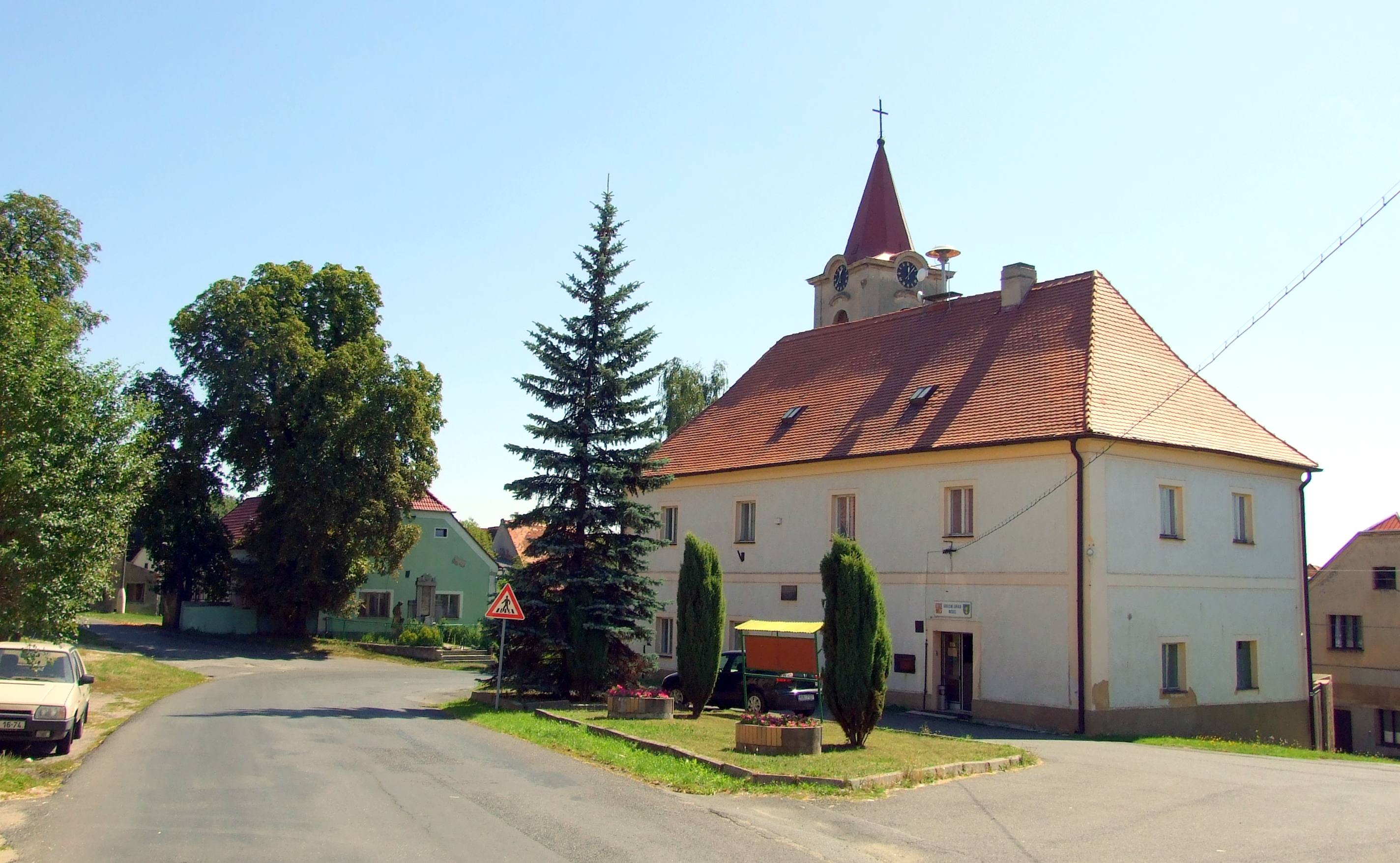 Mšec village in Rakovník district, Central Bohemian region, CZ This photograph was taken within the scope of the 'Czech Municipalities Photographs' grant.